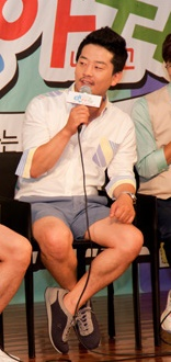 Kim Junho at press conference from acrofan